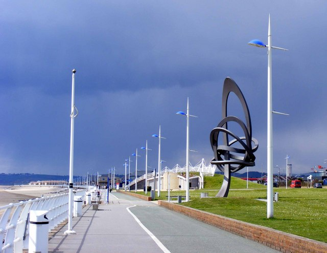 The Promenade, Aberavon Beach, Port Talbot, near to Port Talbot, Neath Port Talbot/Castell-Nedd Port Talbot, Great Britain.